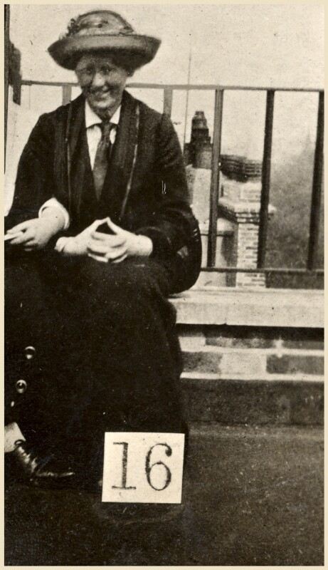 An image created by the United Kingdom's Criminal Record Office and then made available at the UKs National Portrait Gallery. These date from c.1914 when the suffragettes had an arson campaign before WW1